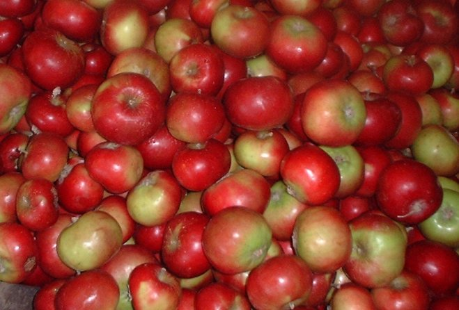 Devonshire Quarrenden apple, British Columbia, Canada